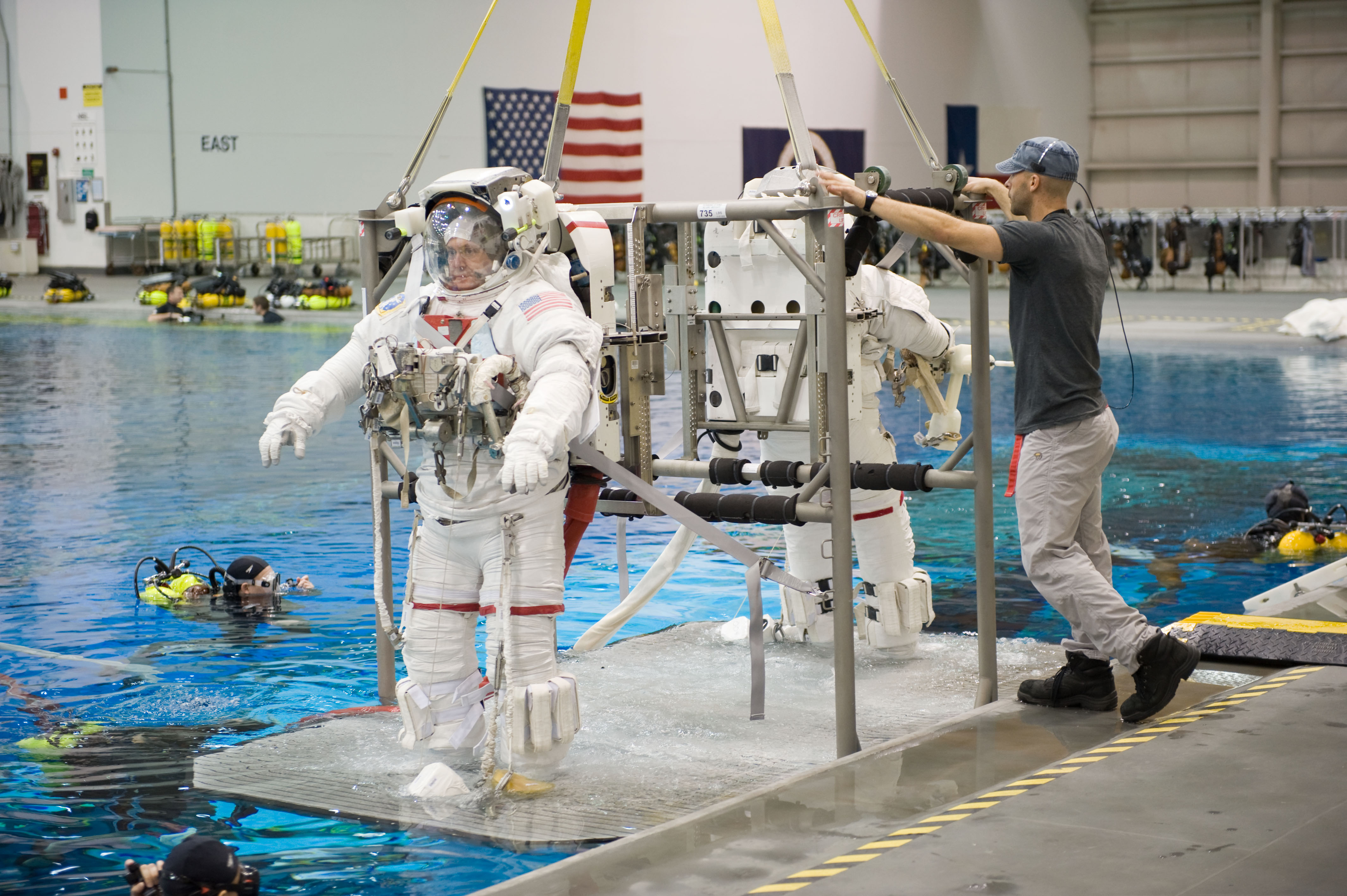 Astronauts Mike Foreman and Randy Bresnik (partially obscured), both STS-129 mission specialists, attired in training versions of their Extravehicular Mobility Unit (EMU) spacesuits, are about to be submerged in the waters of the Neutral Buoyancy Laboratory (NBL) near NASA's Johnson Space Center. Divers are in the water to assist the crewmembers in their rehearsal, which intended to help prepare them for work on the exterior of the International Space Station.